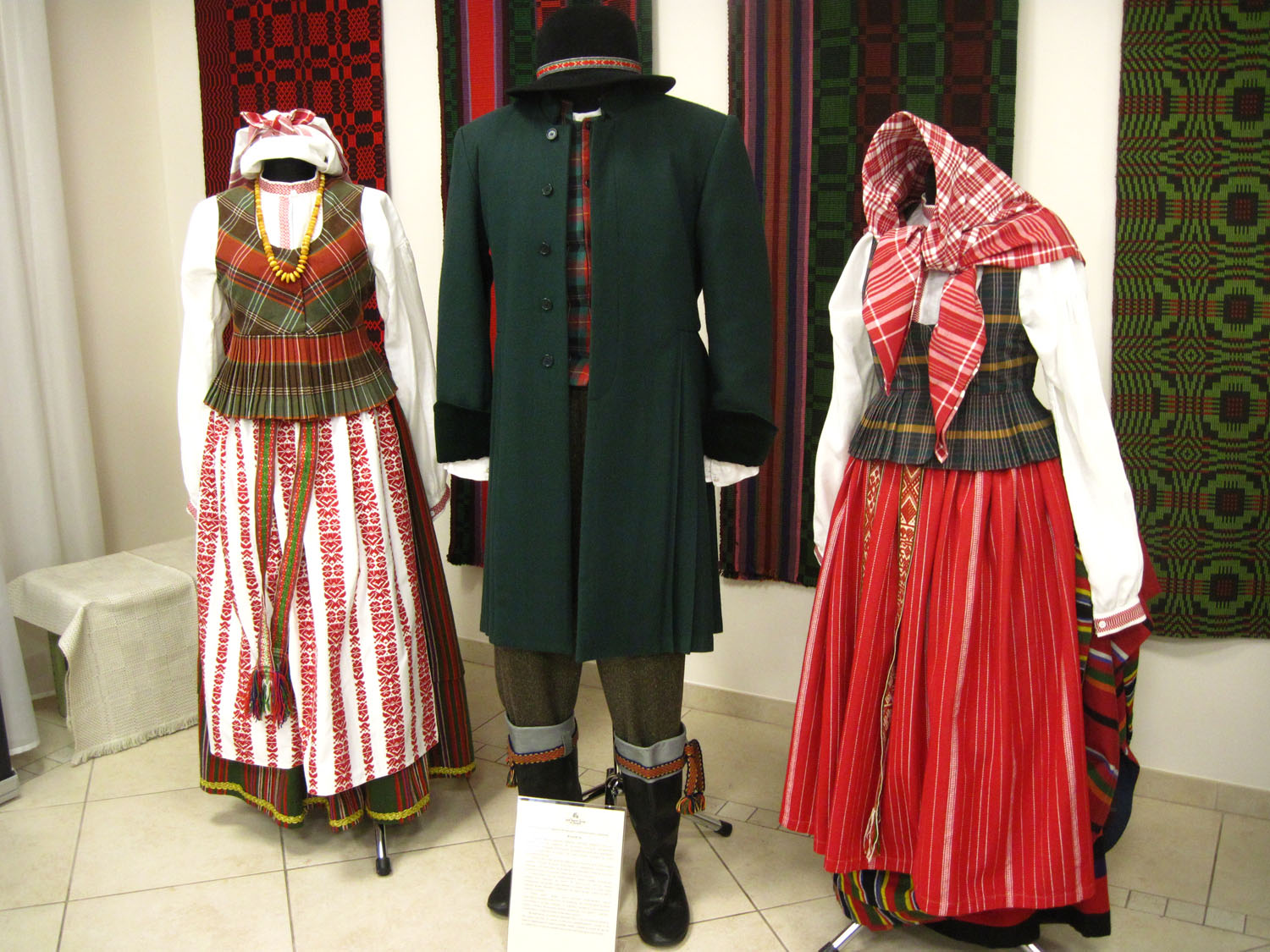 Lithuanian traditional costumes (reconstruction). Žemaitija region. Exhibition in Kyiv.